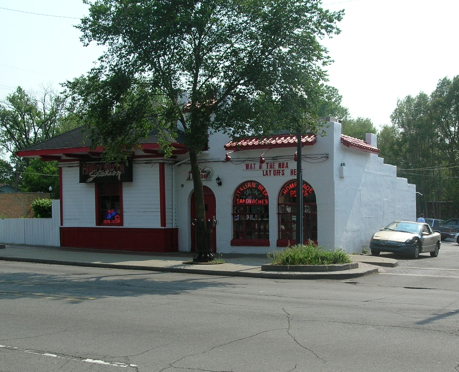 Miller Pizza, incorporating the original Miller passenger depot, in the Miller Beach neighborhood of eastern Gary, Indiana.